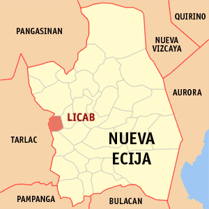 Map of Nueva Ecija showing the location of Licab